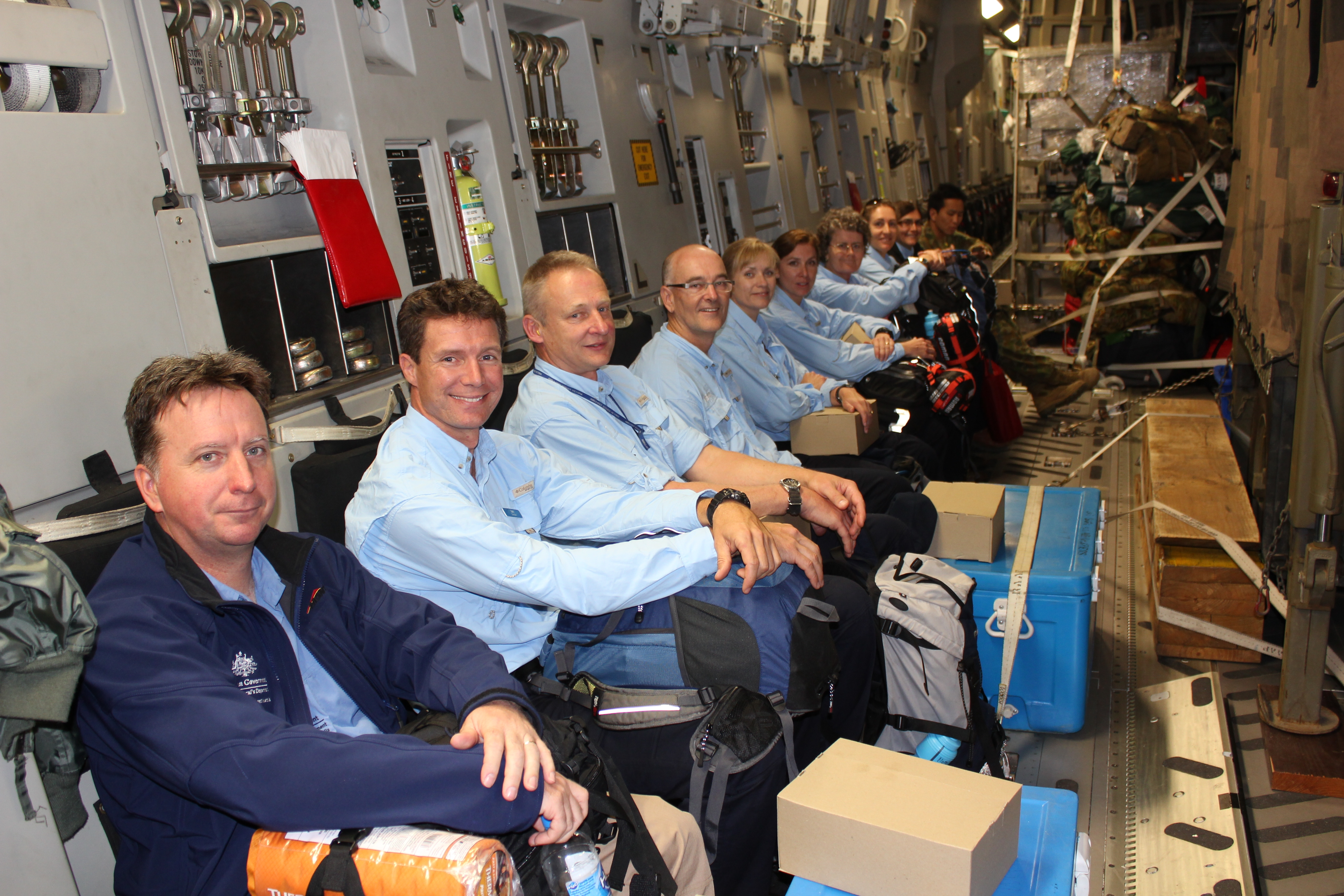 Australian medical team en route to Pakistan 2010. Photo: Heather Pillans, AusAID